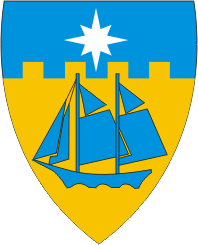 Coats of arms of Häädemeeste Parish